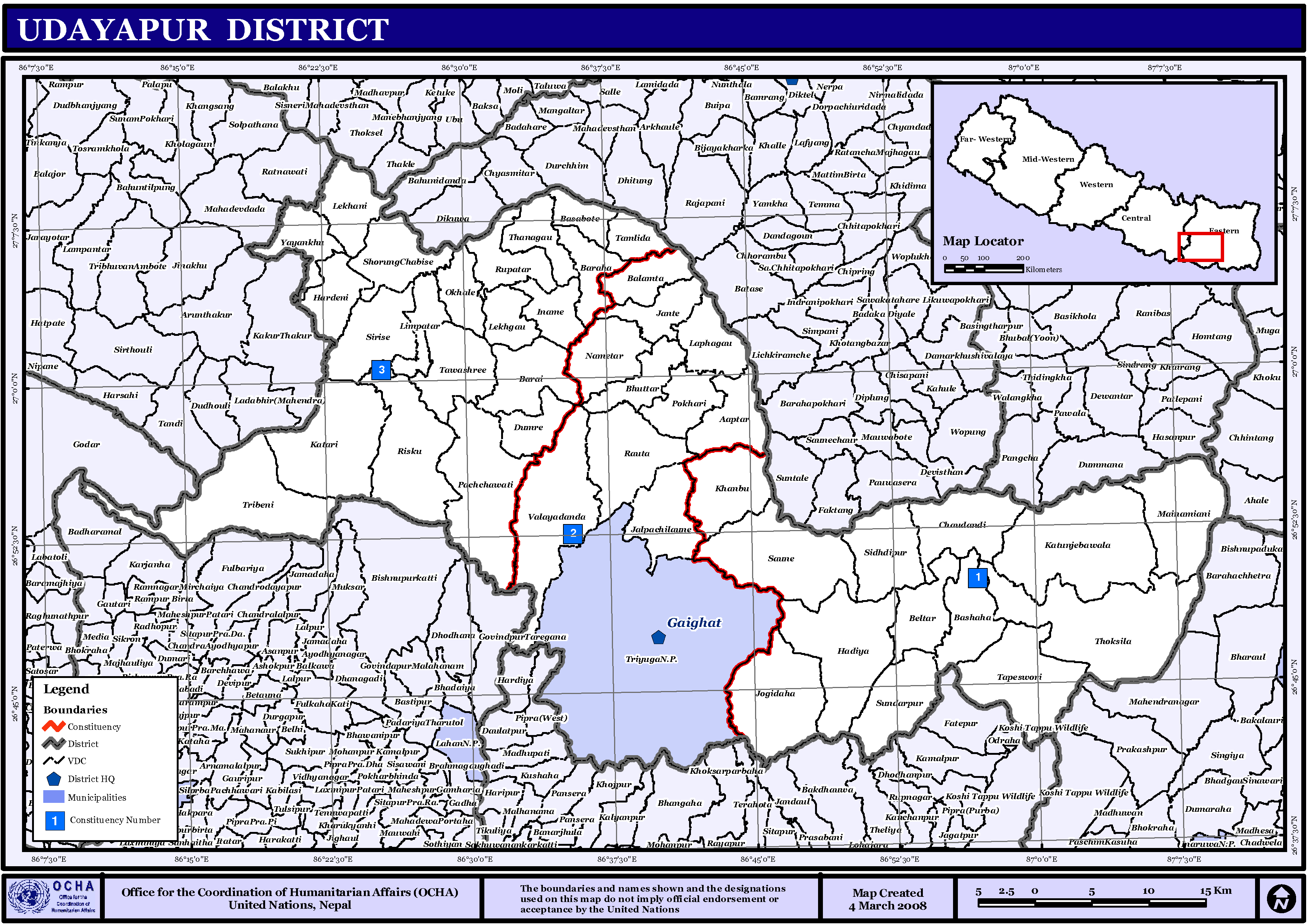 Map displaying Village Development Committees in Udayapur District, Nepal